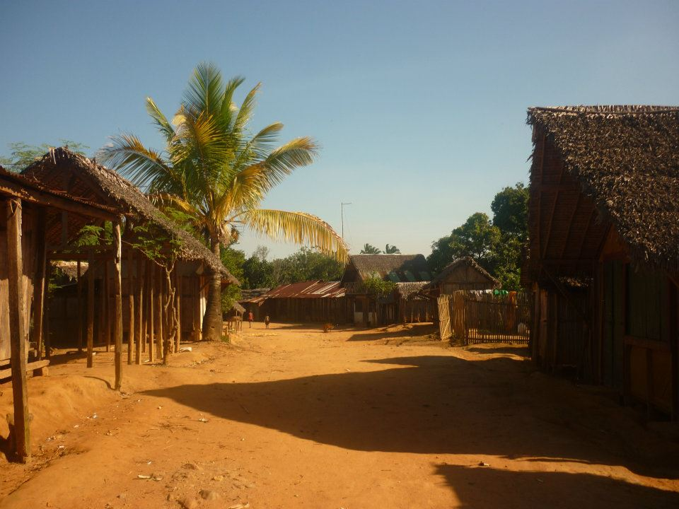 Petit village dans la forêt betsimisaraka